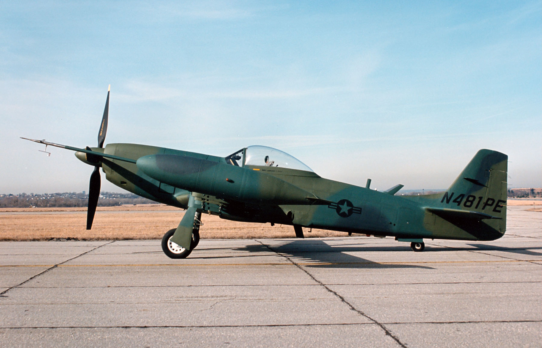 Piper Enforcer (side view)